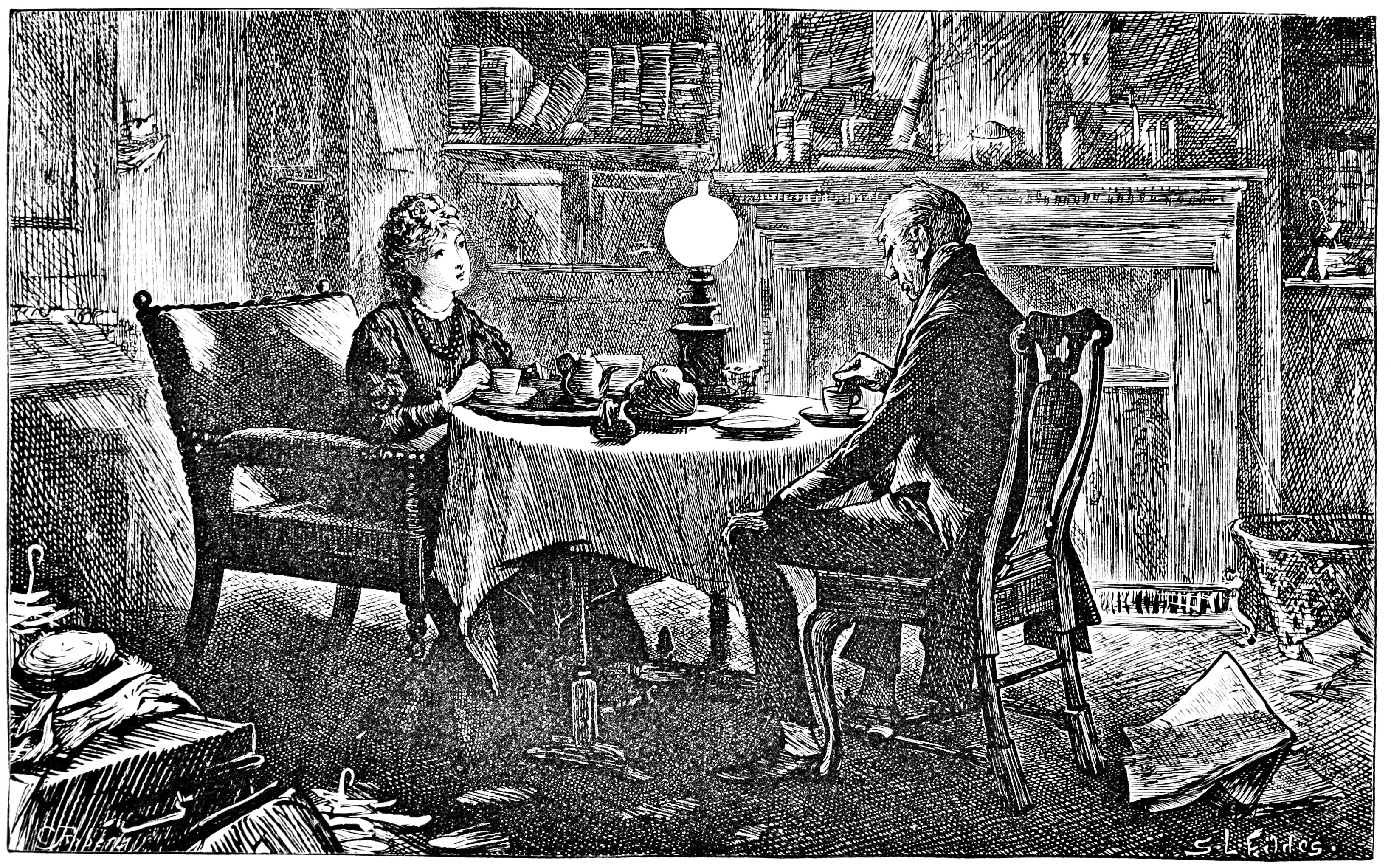 Illustration from the book, The Mystery of Edwin Drood, written by Charles Dickens, illustrated by Luke Fides